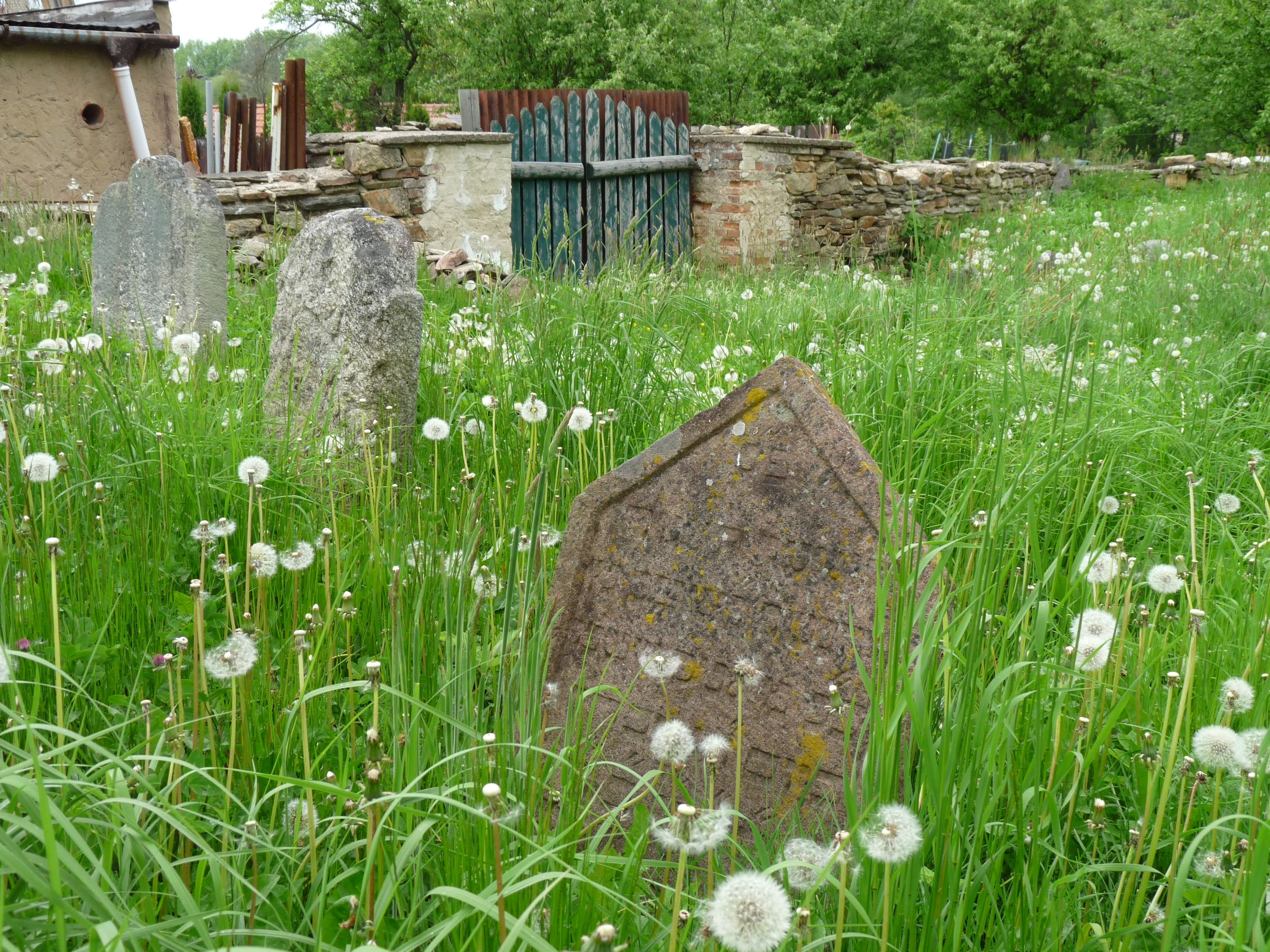 Gravestones in the Jewish cemetery in the town of Načeradec, Benešov District, Central Bohemian Region, Czech Republic.